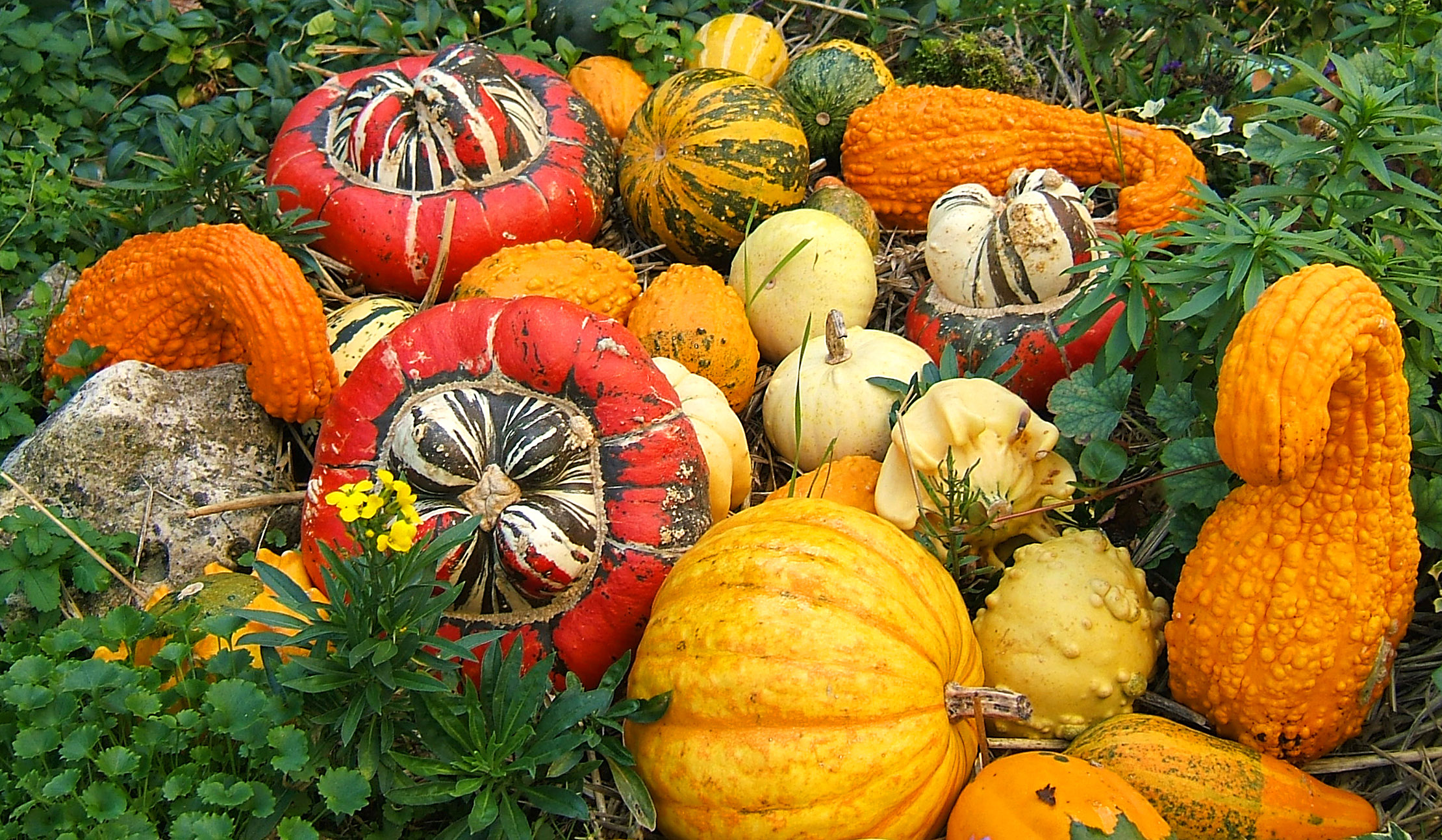 Gourds